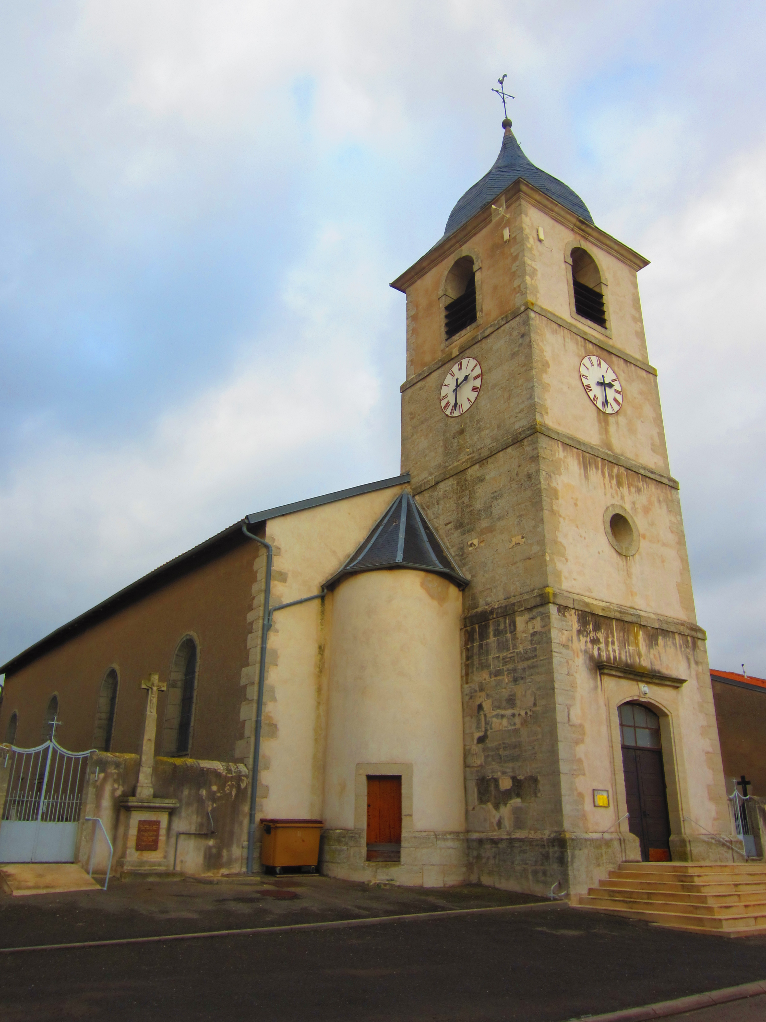 Brehain church